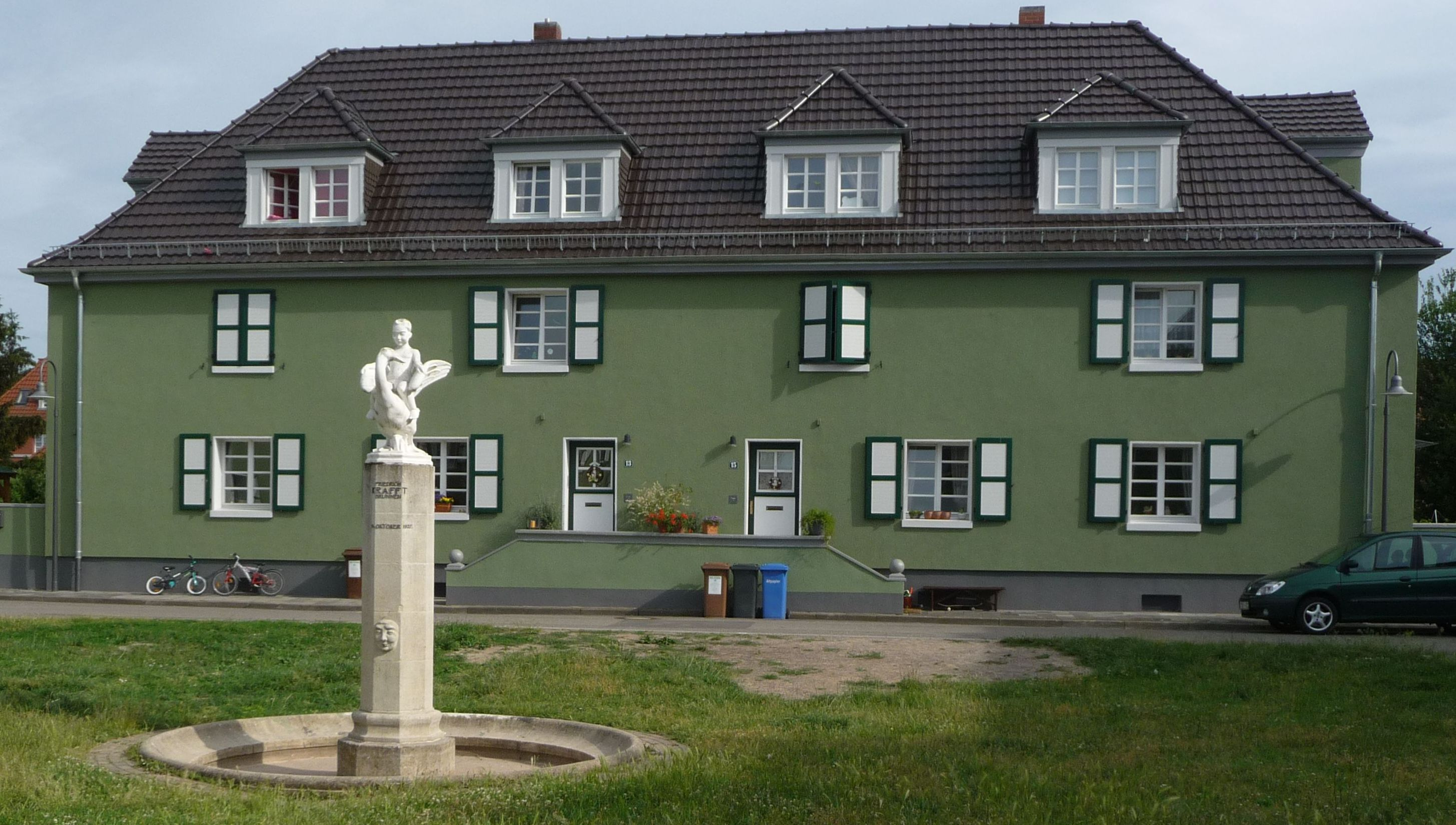 Ludwigshafen, Germany